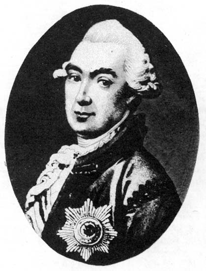 Alexandr_Semyonovich Vasilchikov(1746-1803) was a favorite of Catherine the Great